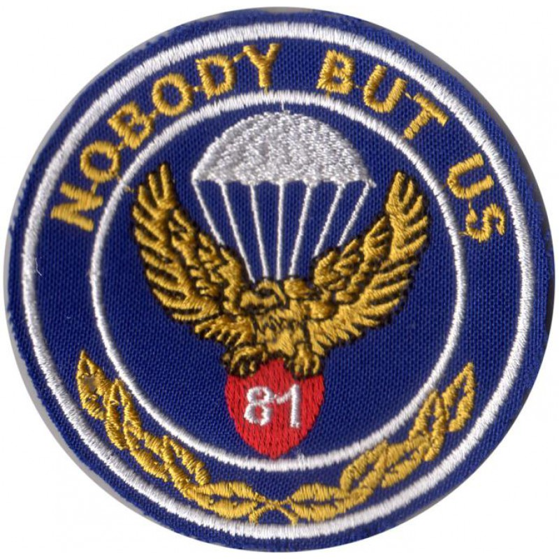 Ukrainian military in the Iraq War Patches